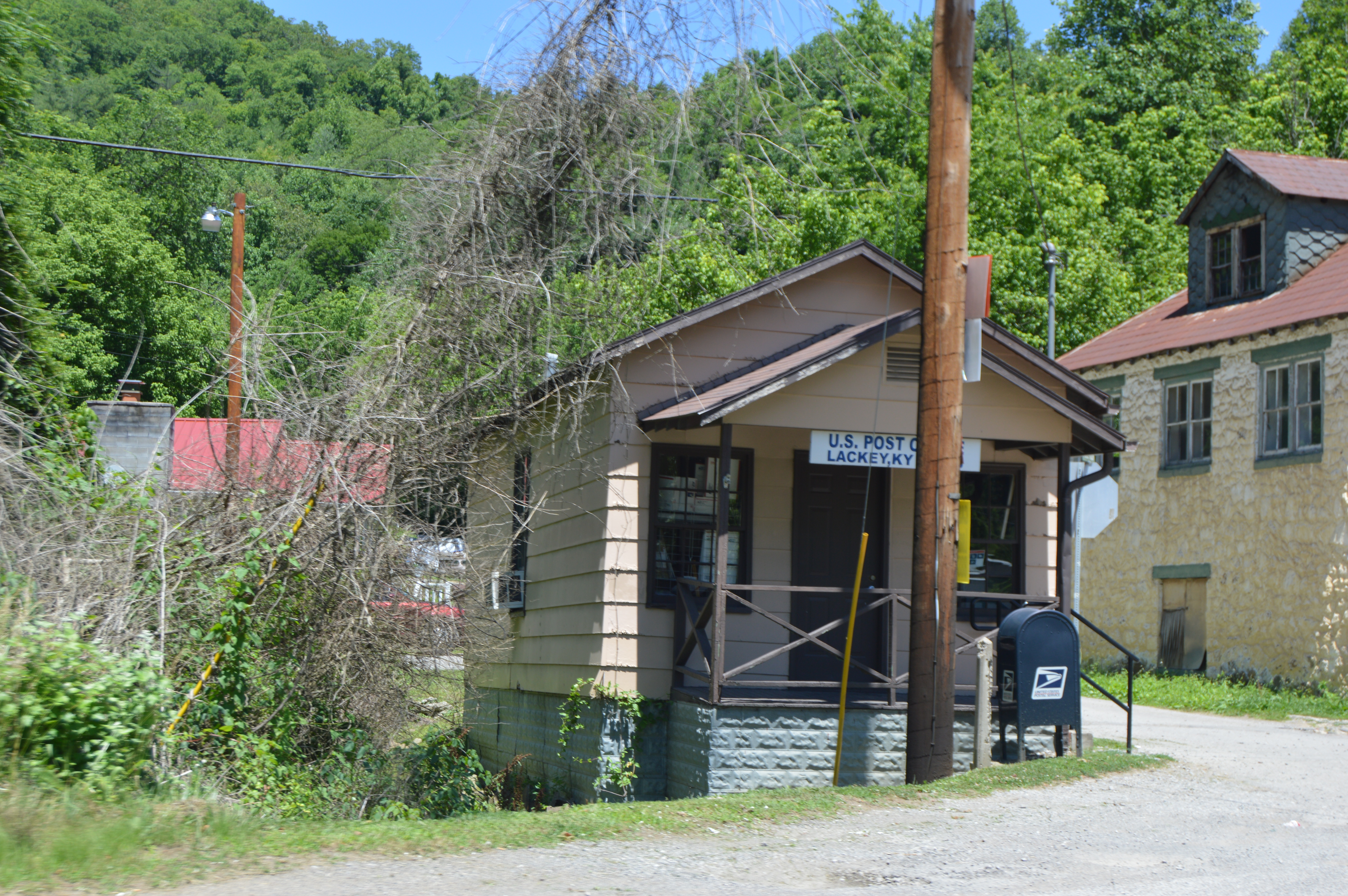 Front and northwestern side of the Lackey Post Office, located at 235 Kentucky Route 7 at Lackey in Floyd County, Kentucky, United States.